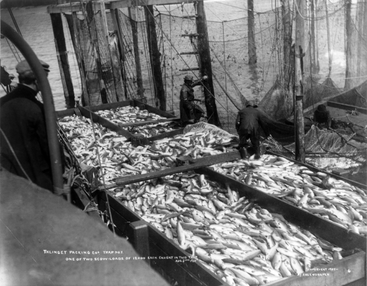 Thlinget Packing Co. trap no. 7, Aug. 2, 1907: One of two scow-loads of 18,000 [salmon] each caught in trap